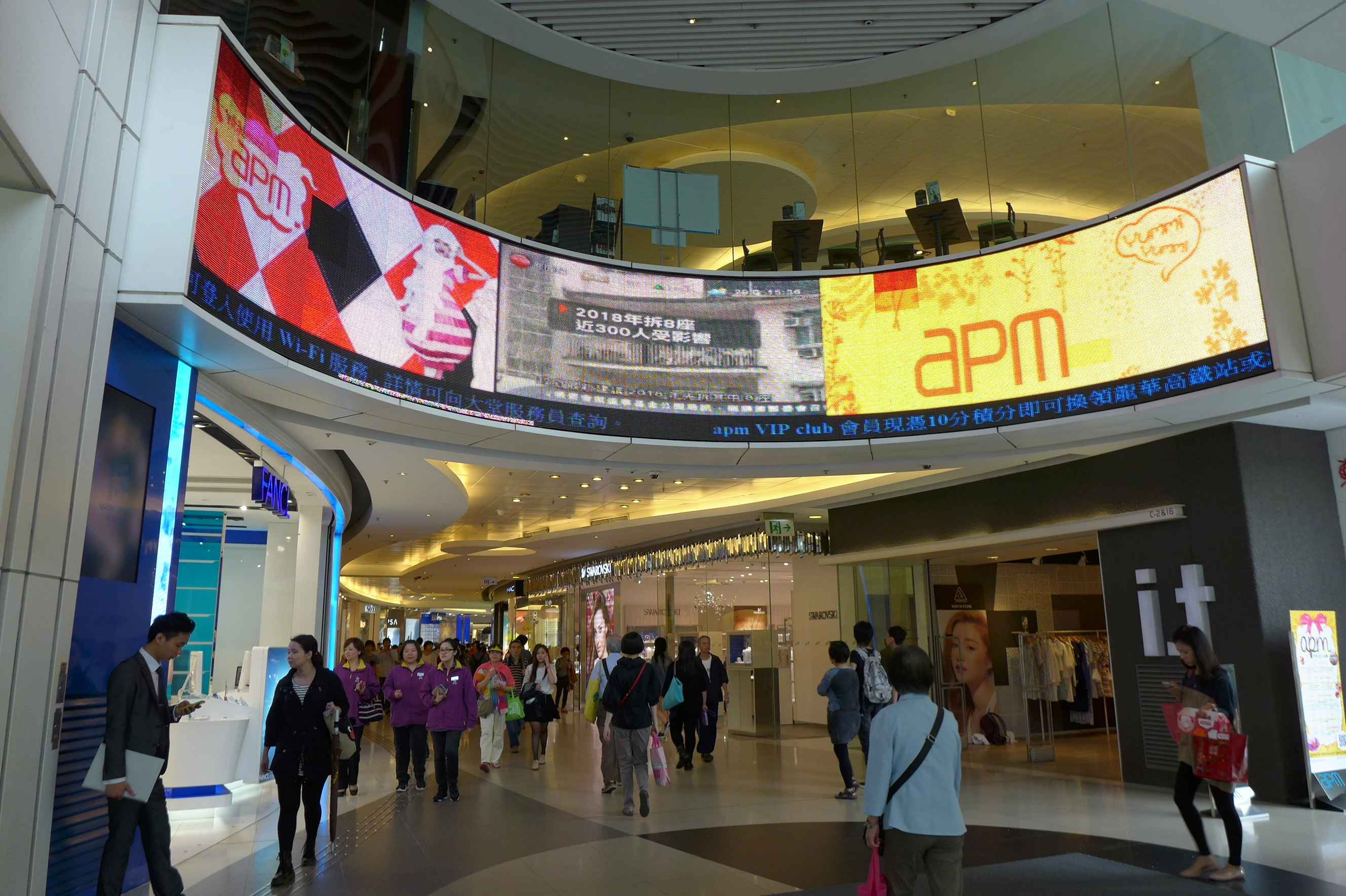 apm Main Entrance